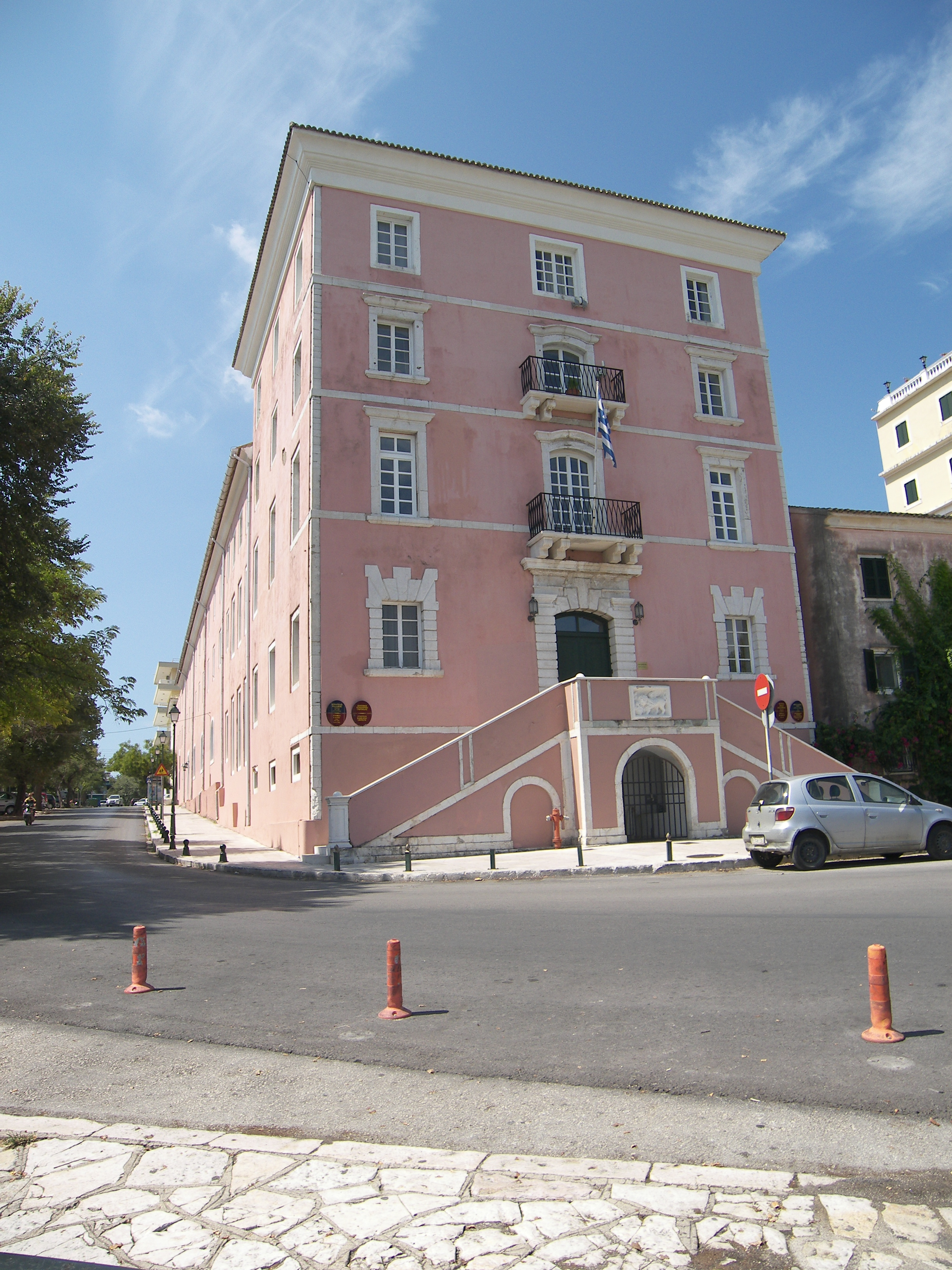 Please see filename